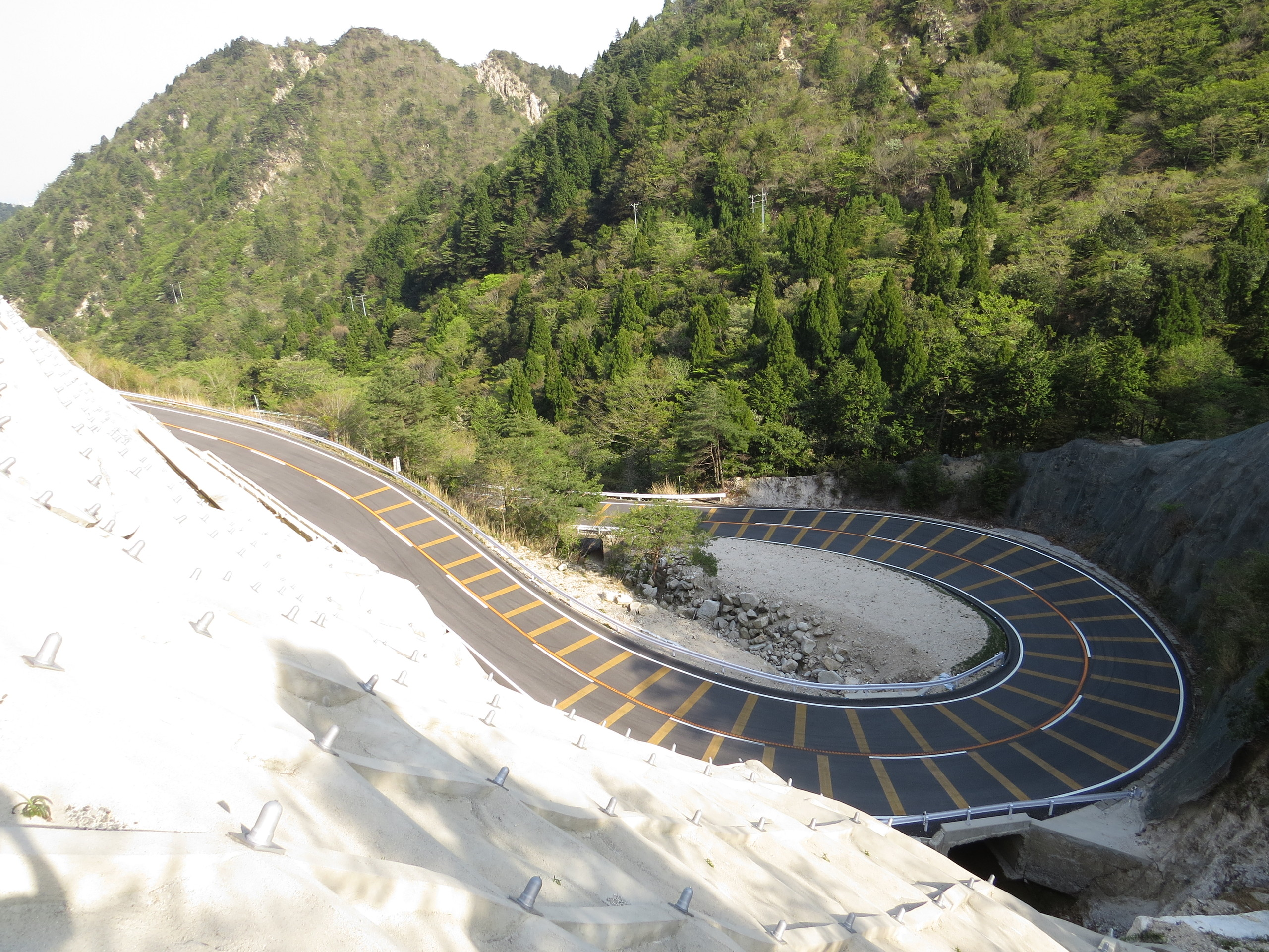 Hairpin turn R477, in Komono, Mie, Japan.